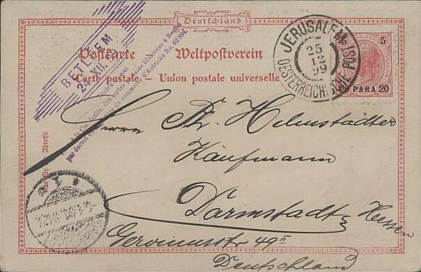 Postcard sent on Christmas 1899 from Bethlehem via private courier to Jerusalem, then by the Austrian Post to Germany. "AUSTRIAN POST- Color religious view card mailed to Germany, franked 20 Para, tied by Black p/m of Jerusalem Col. type 546.3 25.12.1899 (this scarce asmost similar cards known tied by Violet p/m) alongside Bethlehem cachet St. type561. ar/pm on front..commercial message on back. VF (PH) [ PPC]" per Doron Waide Auctions [1]